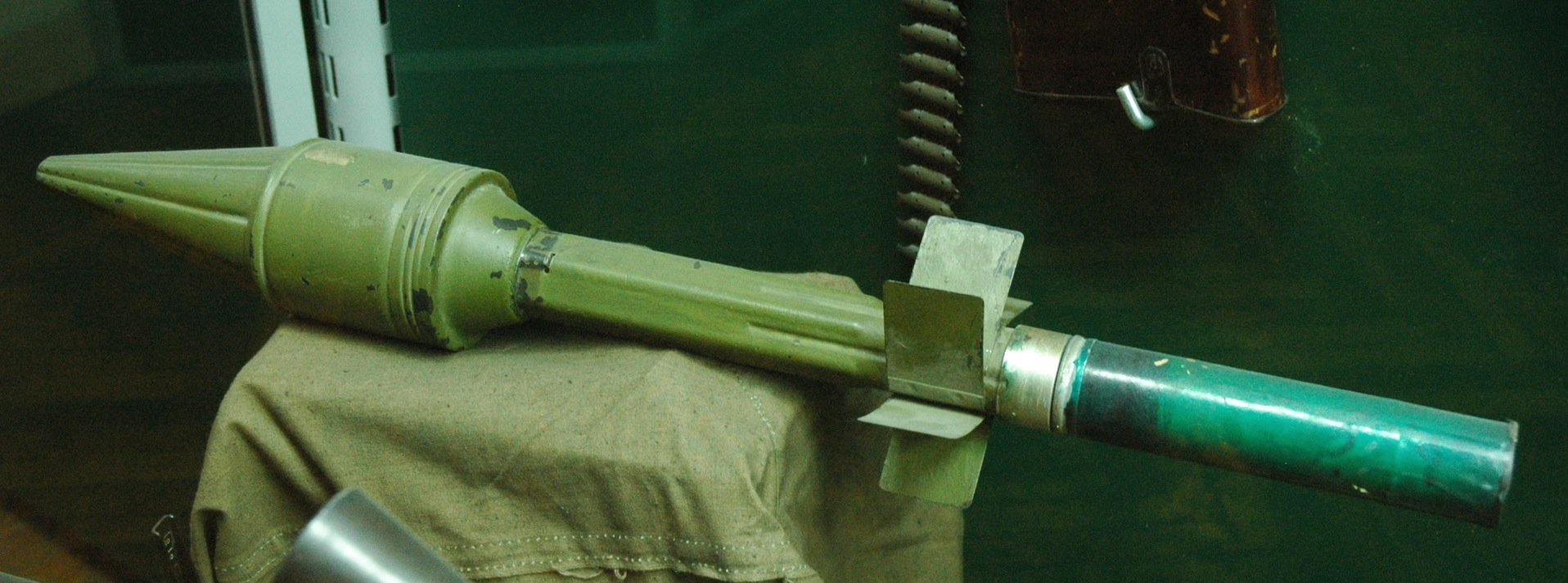 Soviet PG-2 82 mm grenade (Central Museum of Ukrainian Armed Forces, Kyiv)